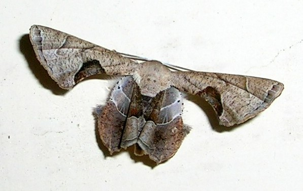 Moth, Phazaca leucocera (Uraniidae, Epipleminae) from Talakaveri, Coorg, India Identification courtesy of David C. Lees, NHM, London.